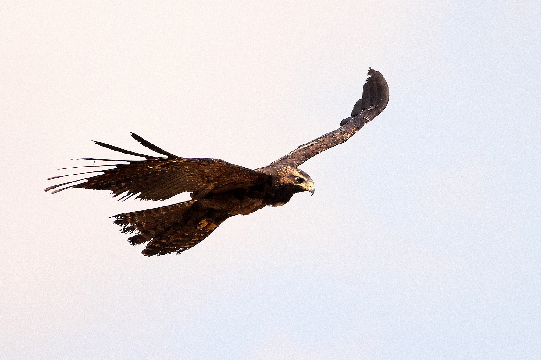 Black Eagle near Bangalore, Karnataka